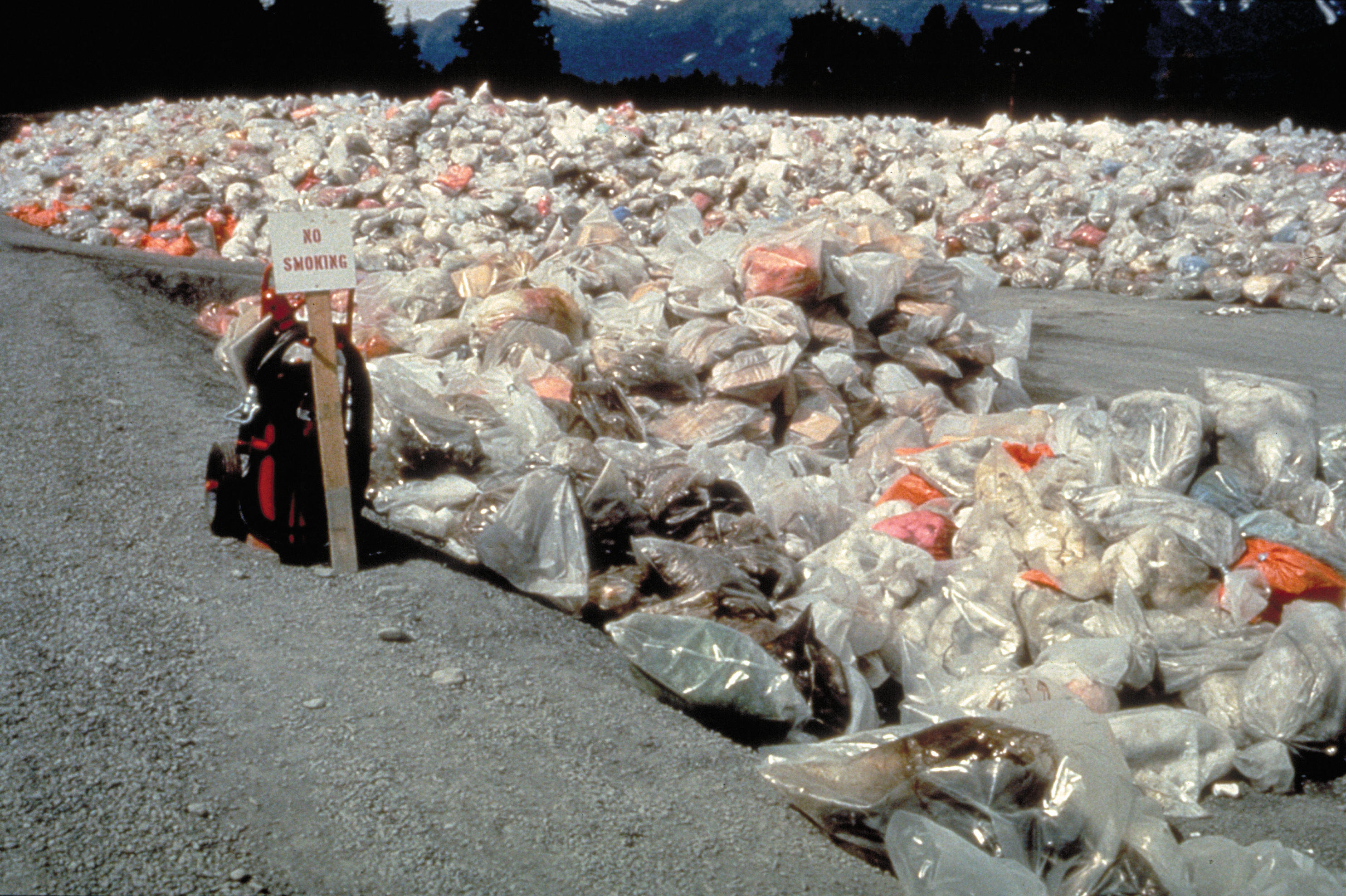 Tanker Exxon Valdez incident, Prince William Sound, Alaska, March 1989. Bags of oiled waste.